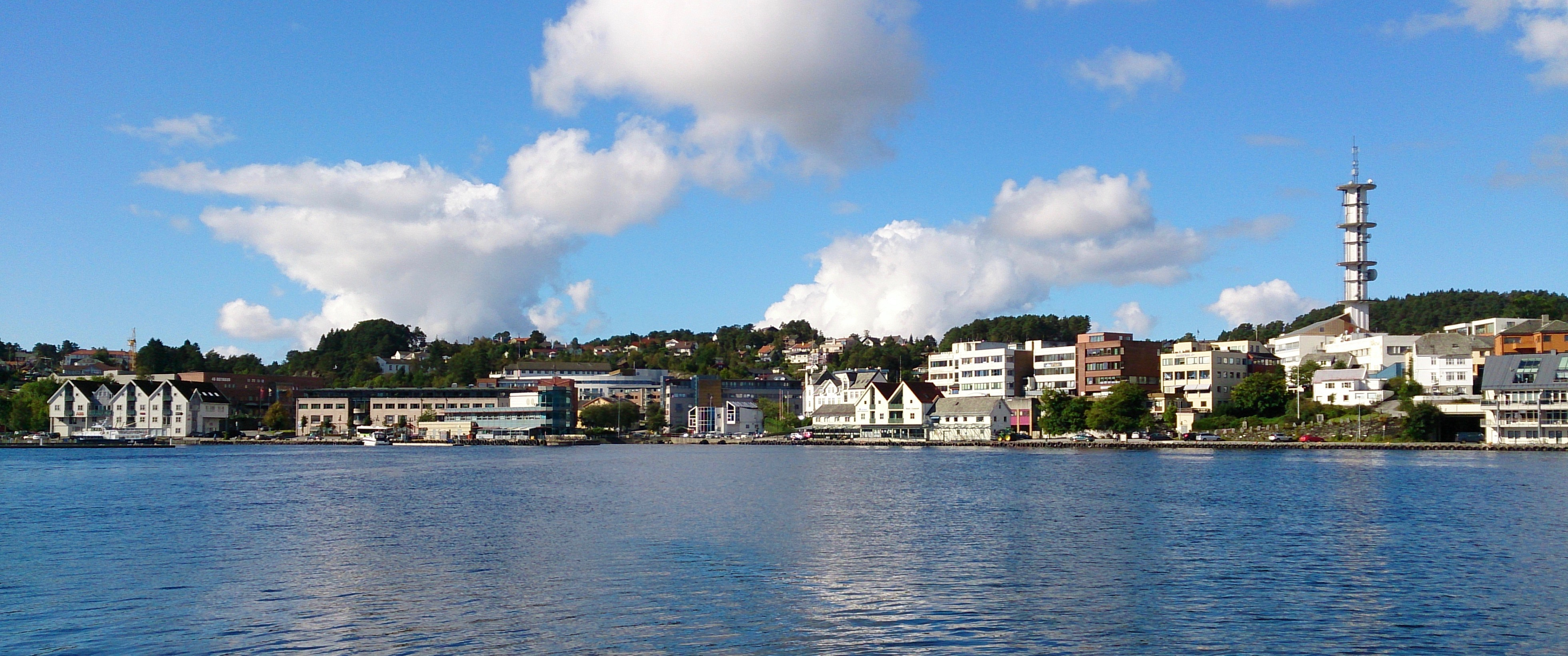 The skyline and harbour of Leirvik town on Stord Island seen from Onarheimsparken ("Leirvik sentrum sett fra Onarheimsparken") 20 September 2013. Cropped version of File:Leirvik Sentrum.jpg Uncropped version of this photo